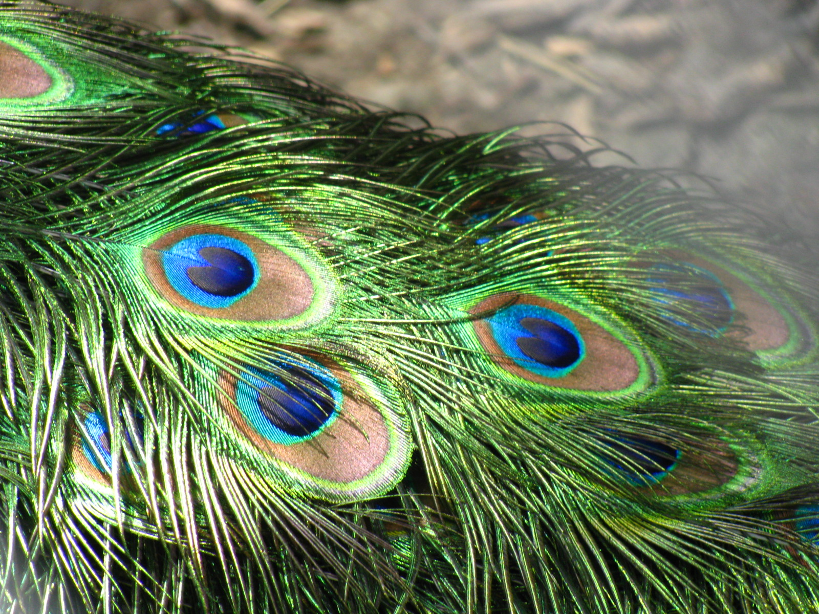 Closeup image of peacock feathers